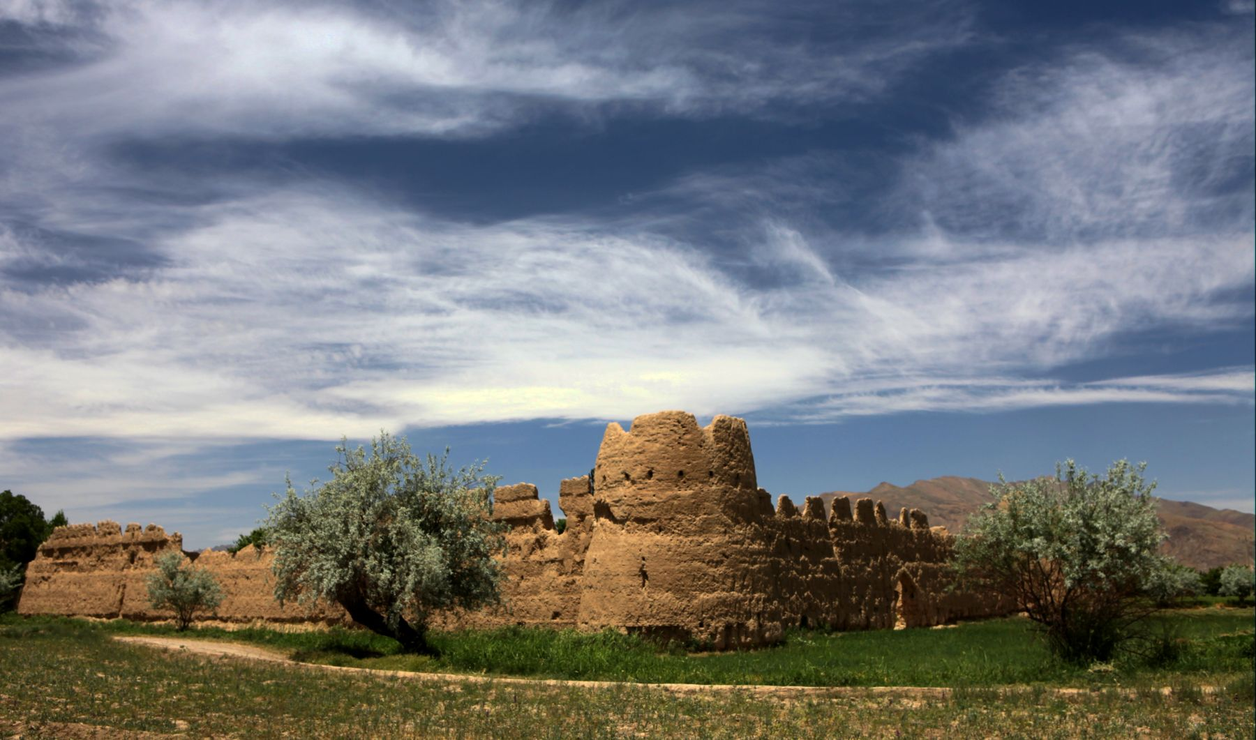 Old Caravanserai in Golpayegan, Esfahan Province, Iran